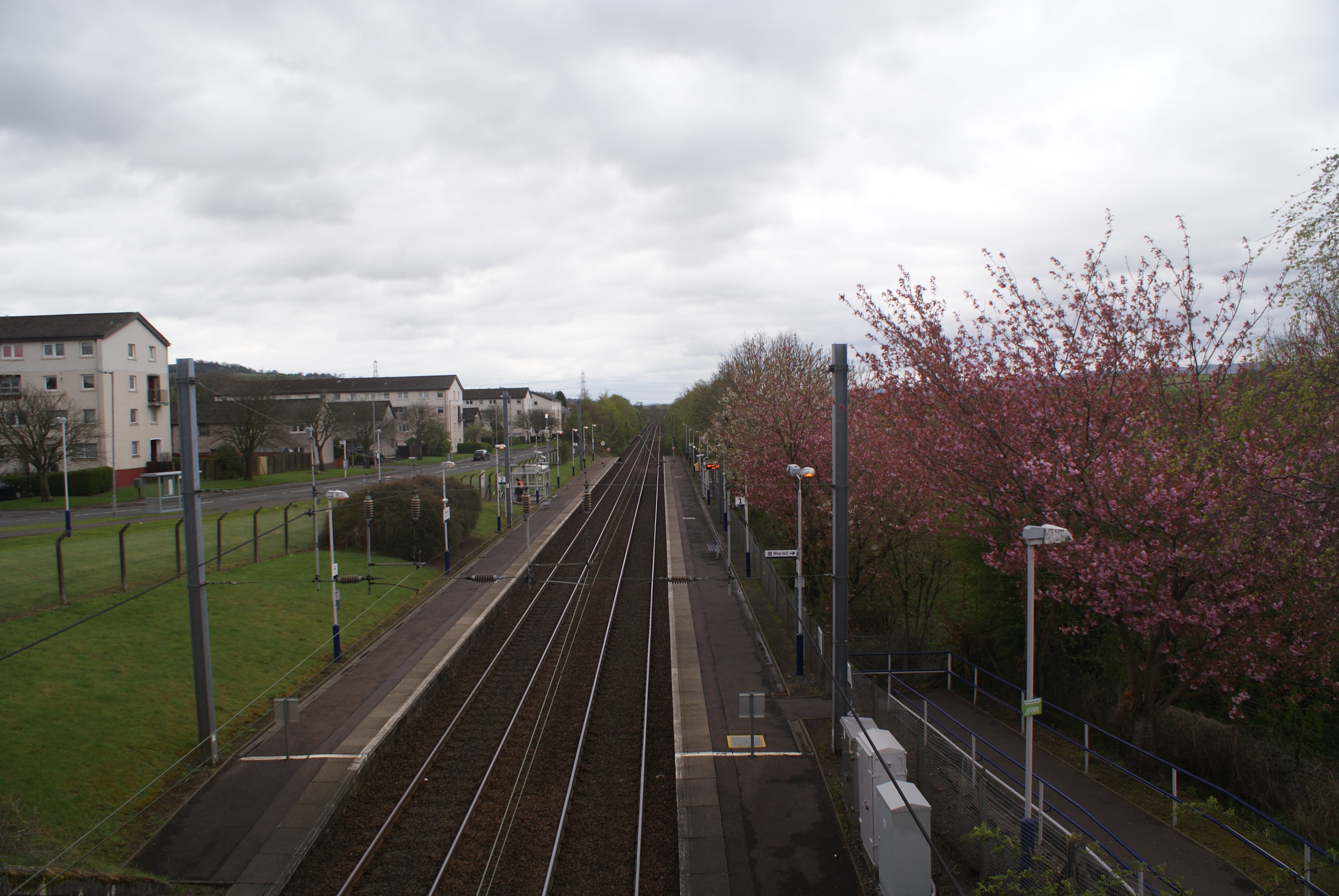 Milliken Park railway station, looking southwest